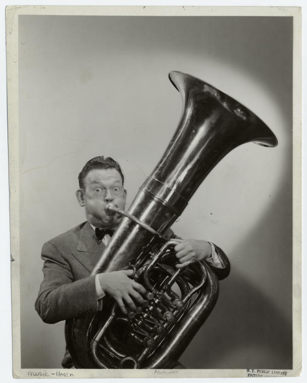 Digital ID: 832515 Source: Mid-Manhattan Picture Collection / Music -- horn ( more info ) Repository: The New York Public Library. Mid-Manhattan Library. Picture Collection. See more information about this image and others at NYPL Digital Gallery . Persistent URL: Rights Info: No known copyright restrictions; may be subject to third party rights (for more information, click here )